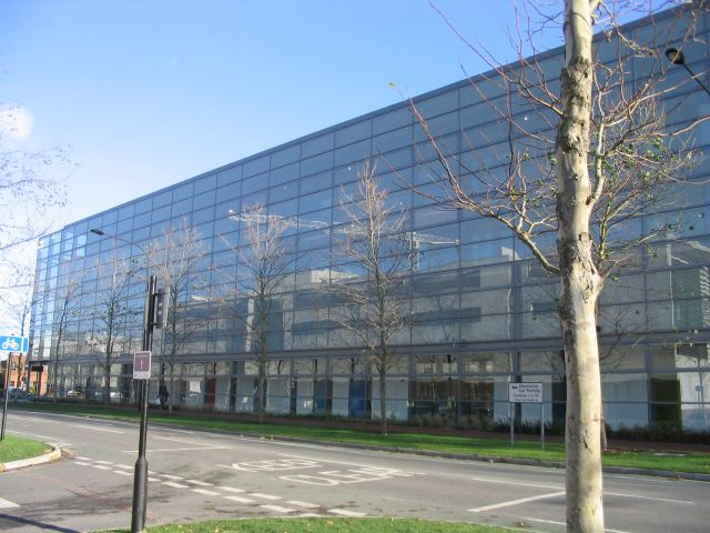 Building 32, Southampton University